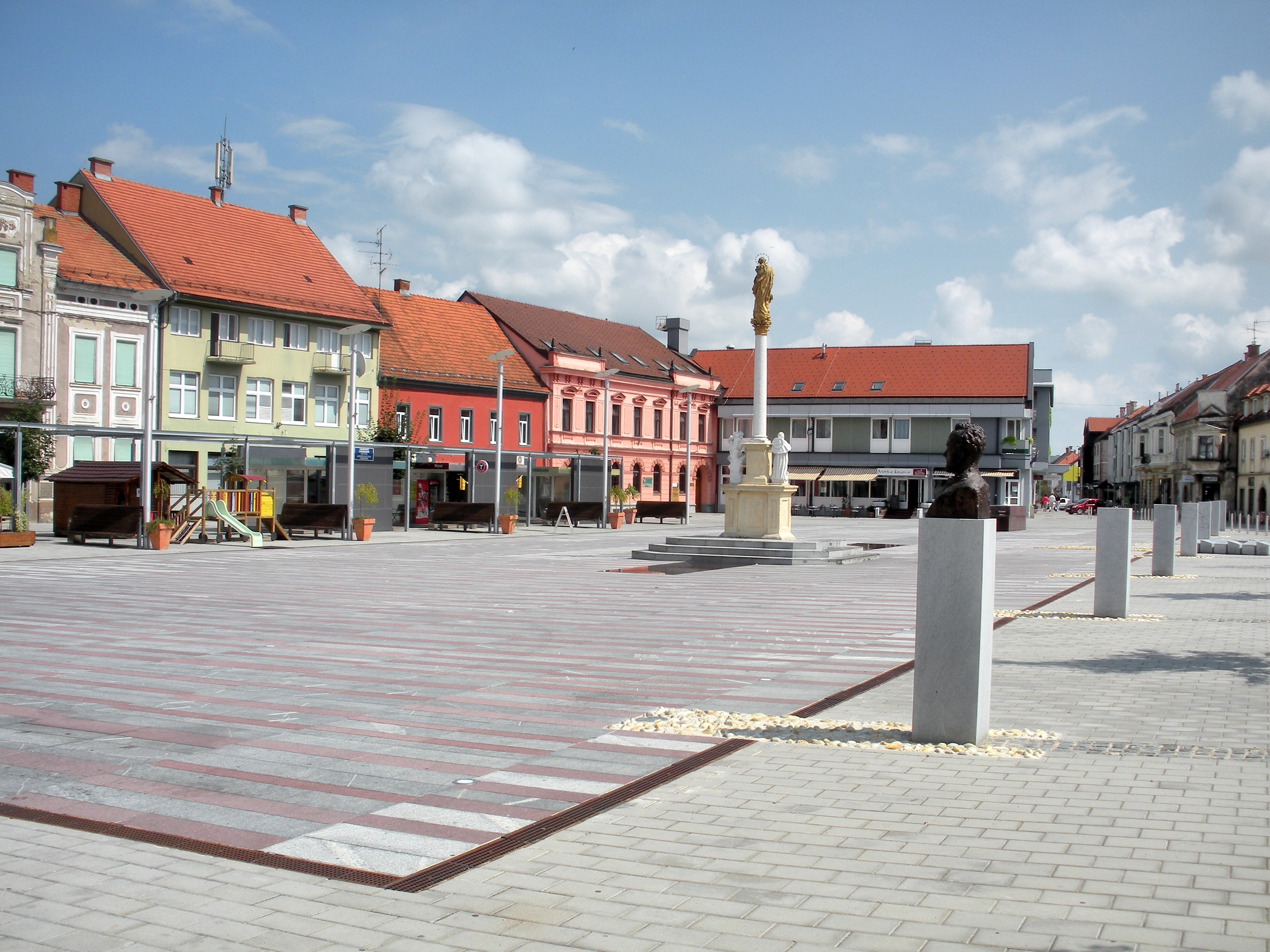 Main square in Ljutomer (Slovenia)